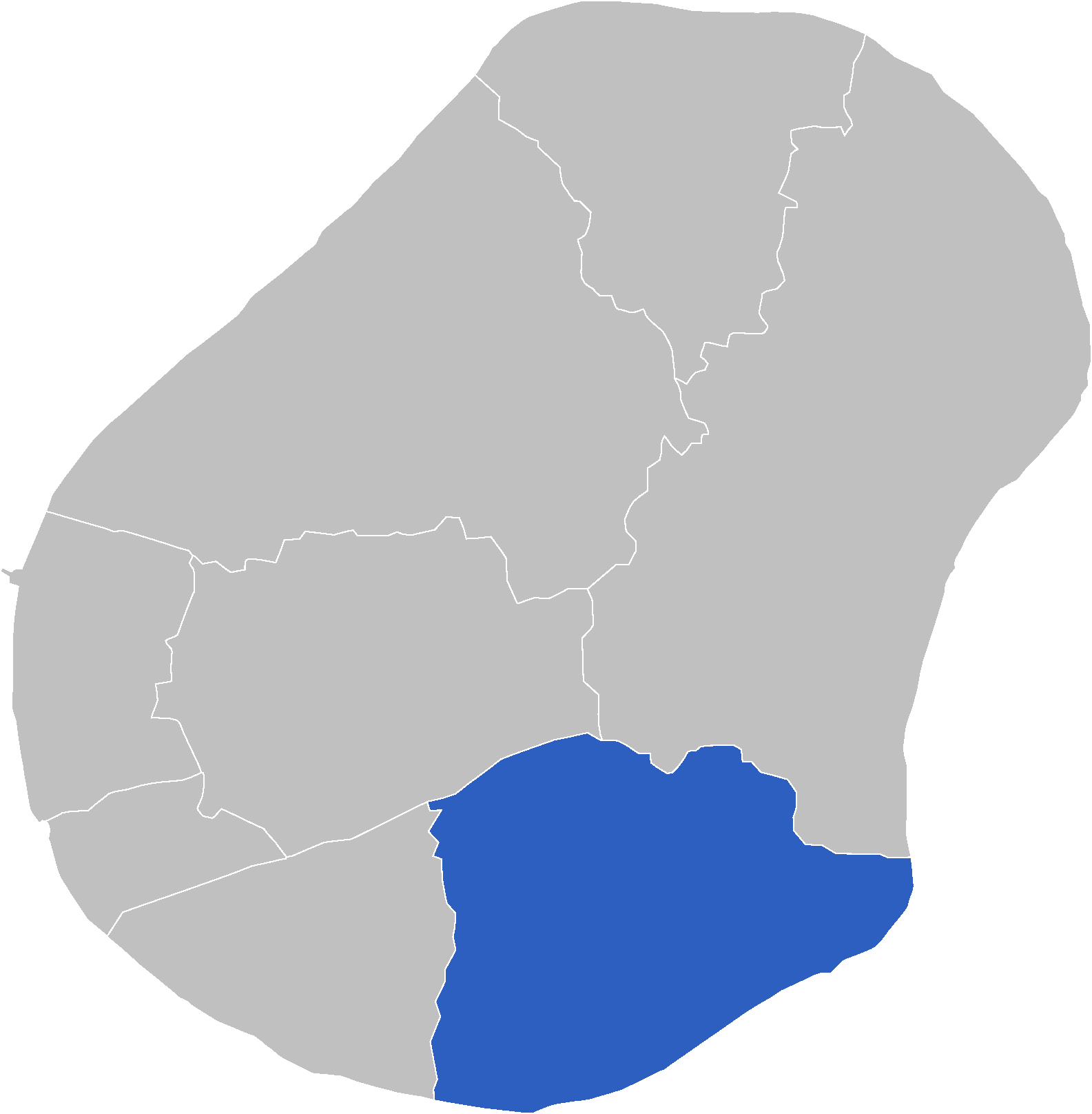 Location map of Meneng constituency, Nauru